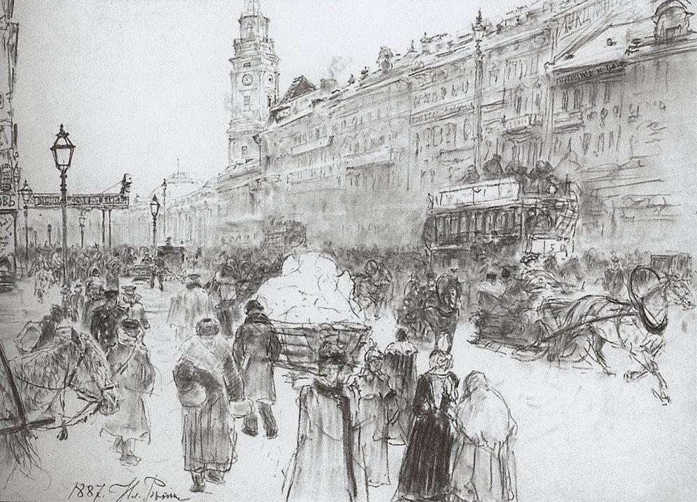 Saint Petersburg (Russia), Nevsky Prospekt. Graphite pencil and ivory black on paper. 29.6 × 41 cm. The State Russian Museum, St. Petersburg.